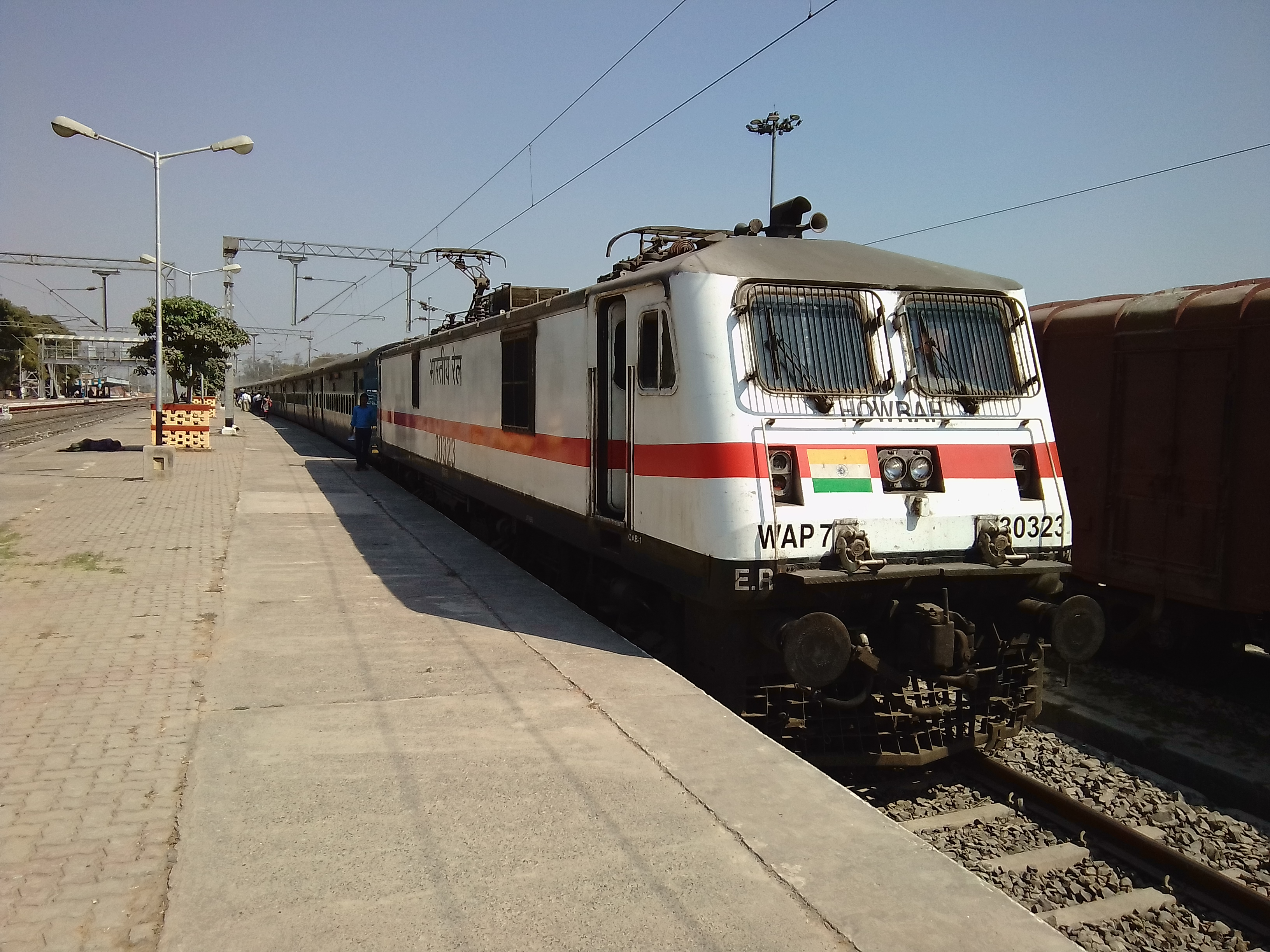 Hool Express with HWH WAP 7 (30323) in Suri station.